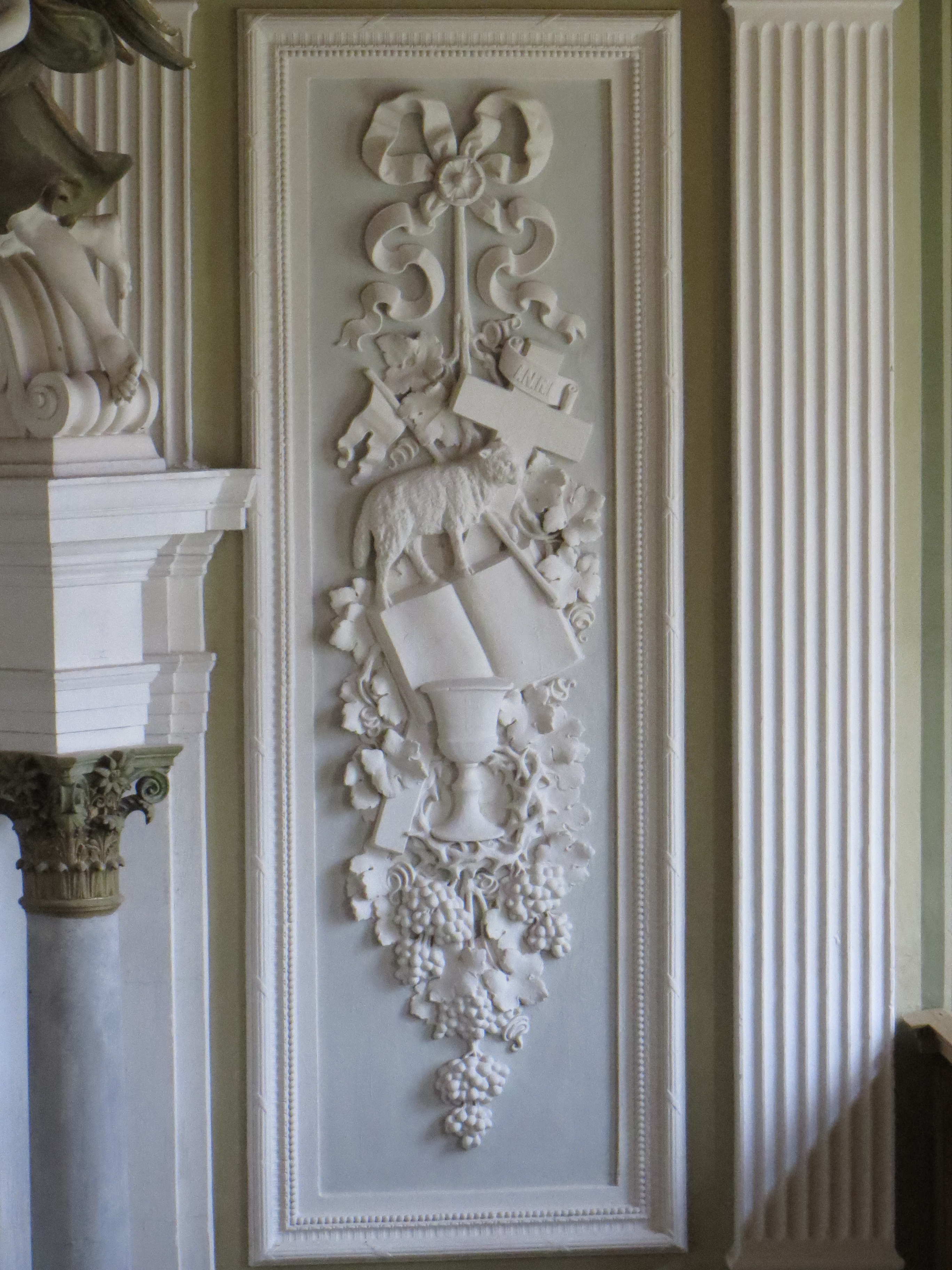 Church in Melkof: Detail